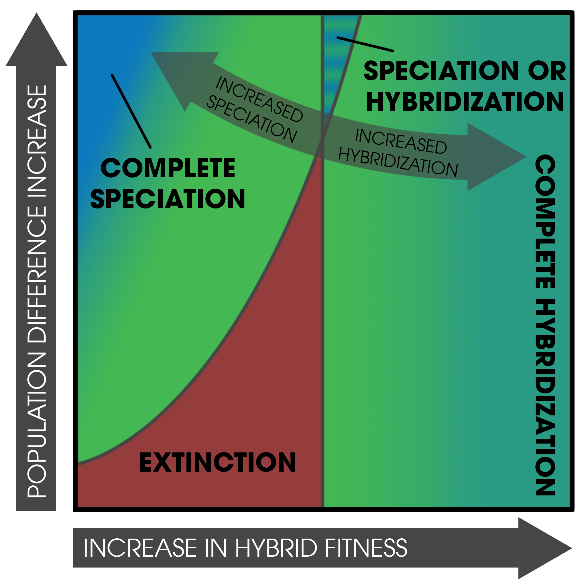 Conditions in which speciation by reinforcement can occur. The more an initial pair of populations has diverged, the higher likelihood of complete speciation. The greater the fitness of hybrid offspring, the less likely complete speciation will occur. Extinction of one of the populations can also result if both initial difference is low and hybrid fitness is low. Based on Liou and Price (1994).[1]